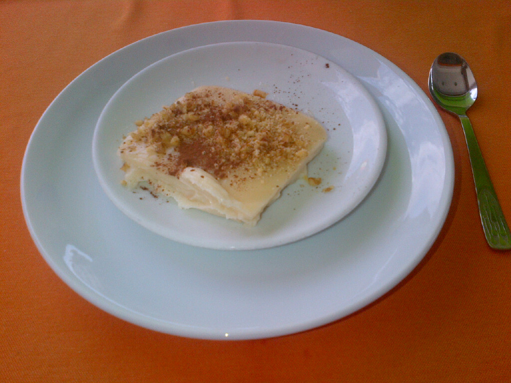 Turkish muhallebi, normally comes in indivual bowls, but this one was cut as a portion from the larger recipient.